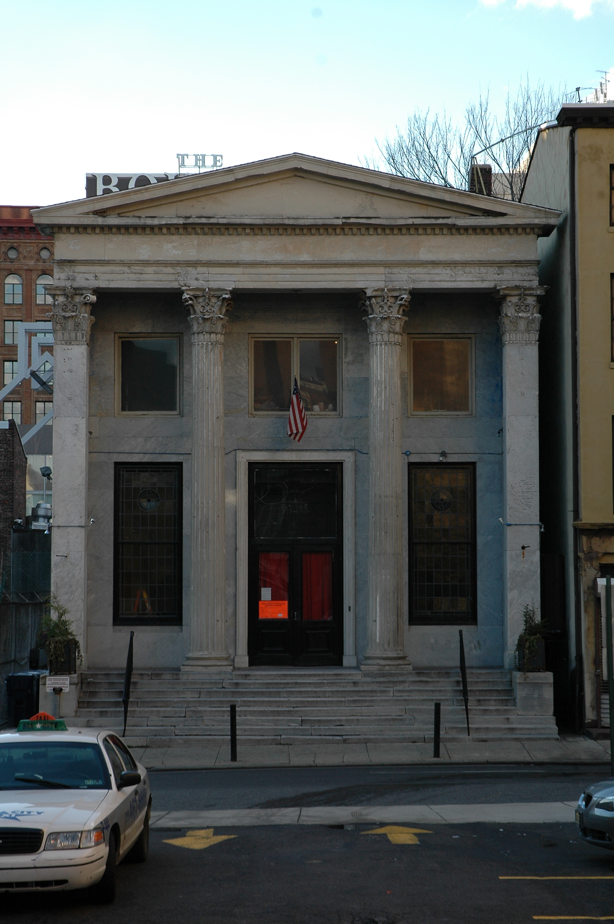 22 S. 3rd St. Philadelphia, Pa, 19106. National Mechanics Building